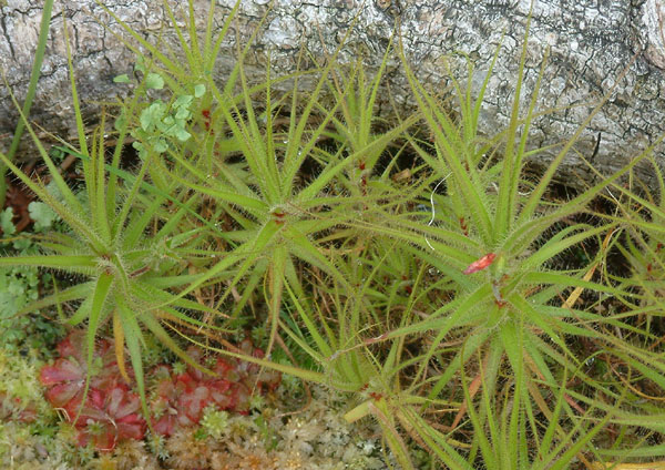 Roridula gorgonias, photographed at Kew Gardens, April 2005